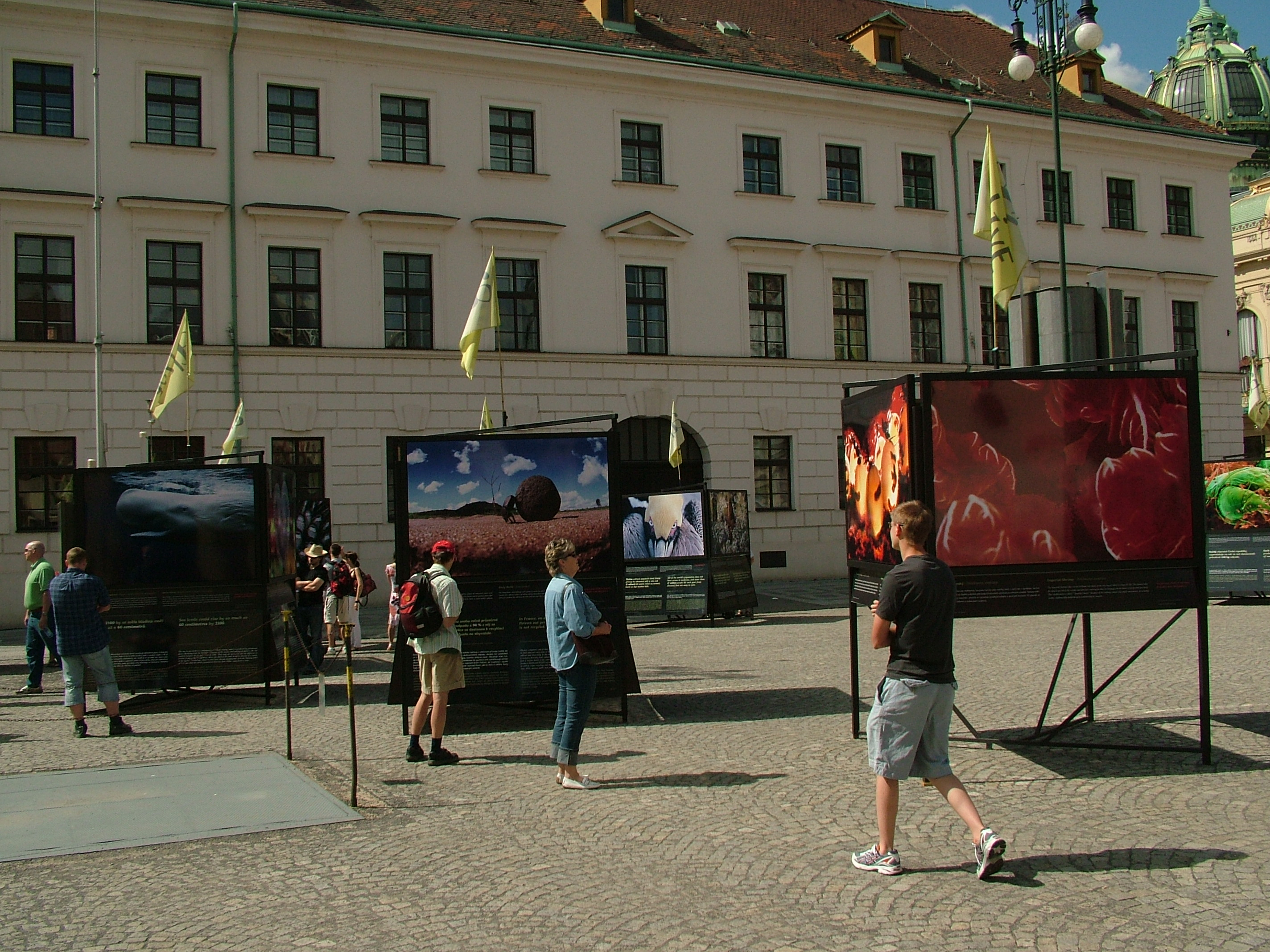 Photographer Yann Arthus-Bertrand, exhibition "alive" in Prague and other nature photographers.